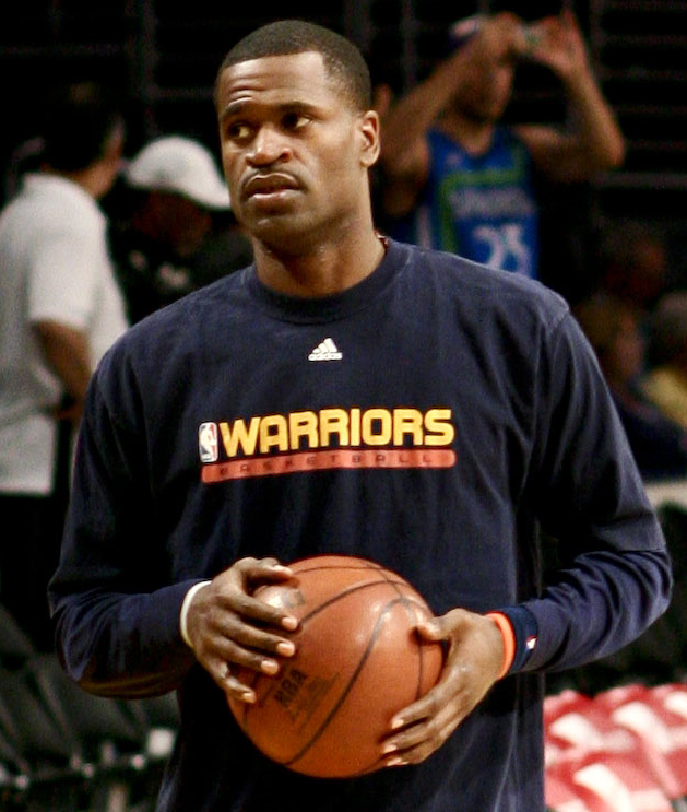 Stephen Jackson warming up before a Warriors/Lakers game on March 23, 2008 (Photographed by Asim Bharwani